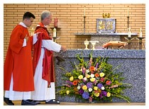 Incensing altar